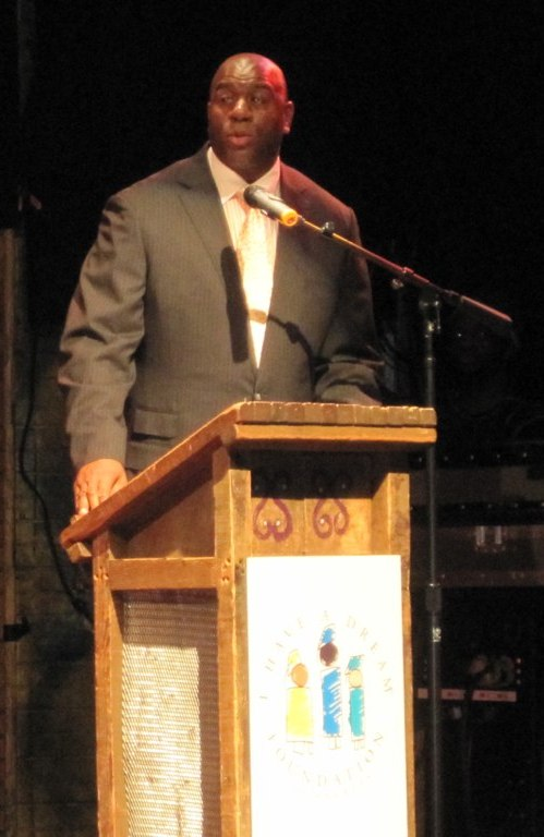 Magic Johnson in 2010